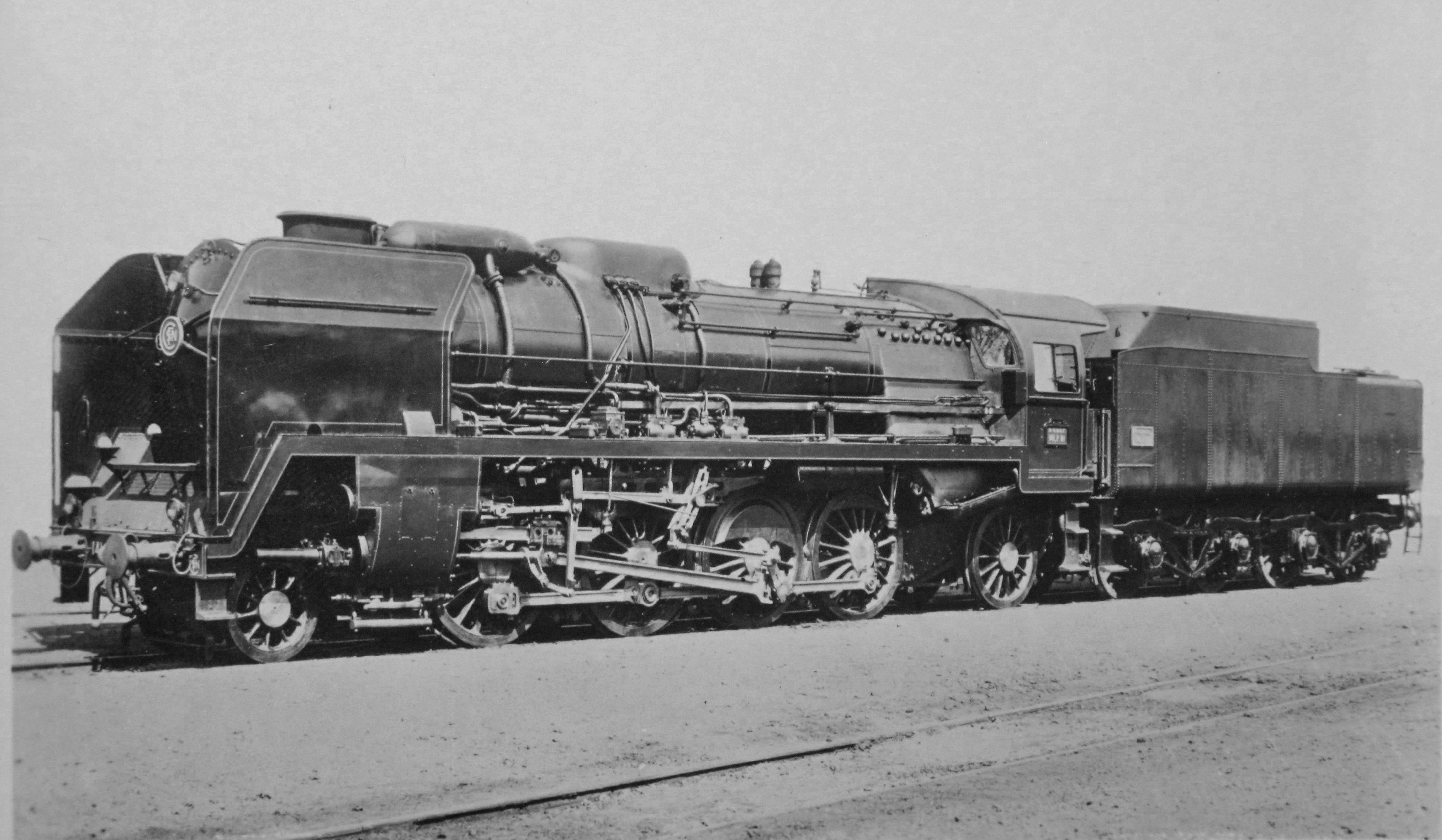 Locomotive type 2-8-2 P of SNCF